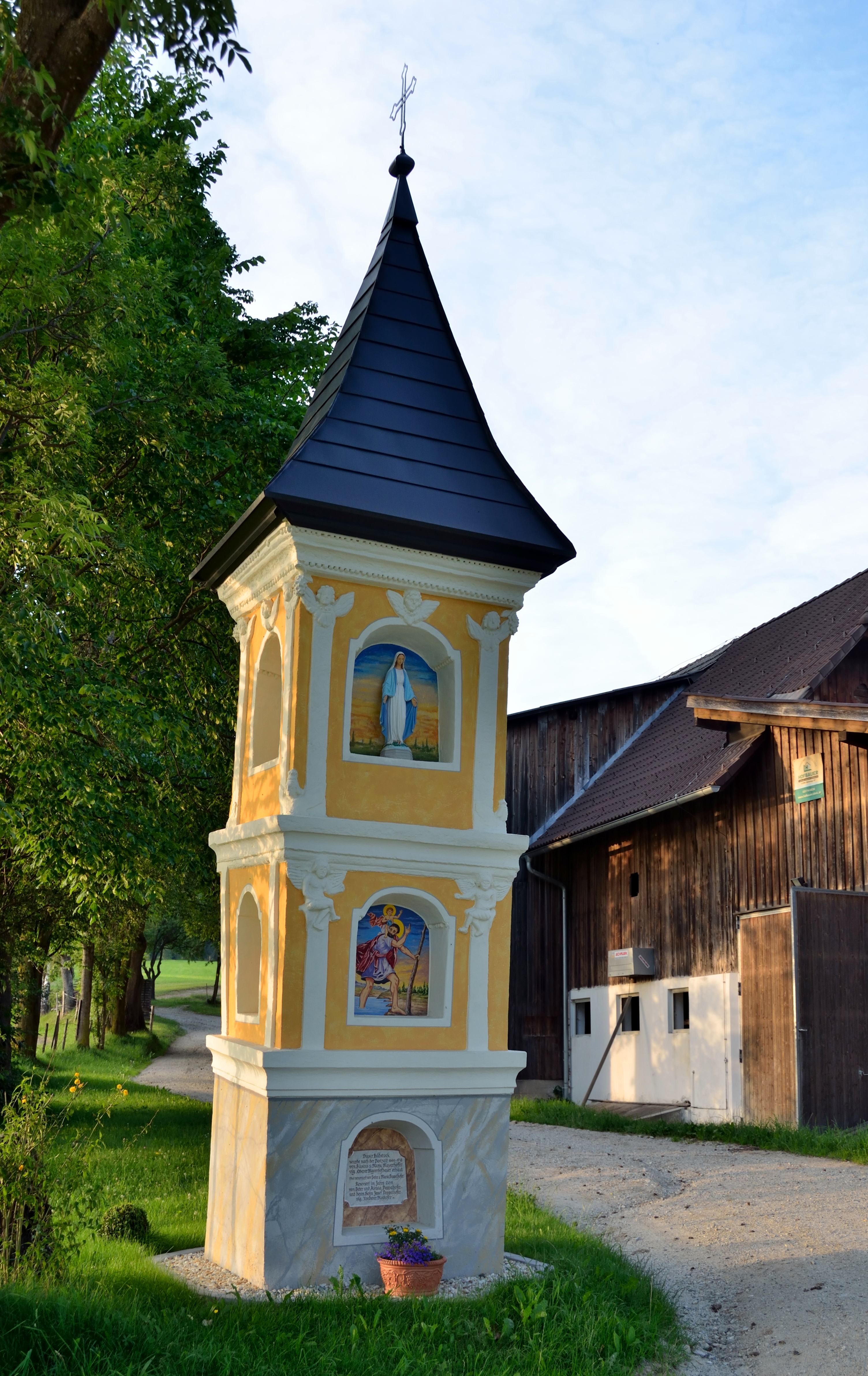 Wayside shrine in Ausseregg 29, municipality of Strallegg, Styria. Protected as a cultural heritage monument. Built at the beginning of the 18th century.